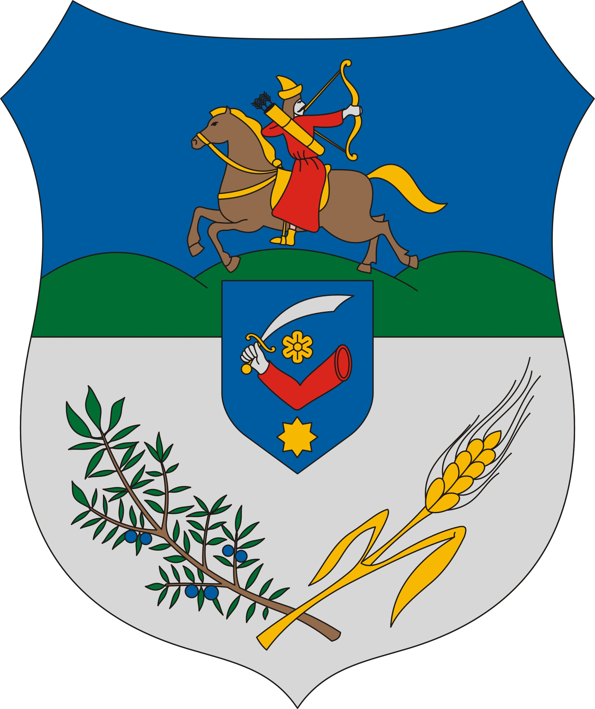 Coat of arms of Ladánybene, Hungary